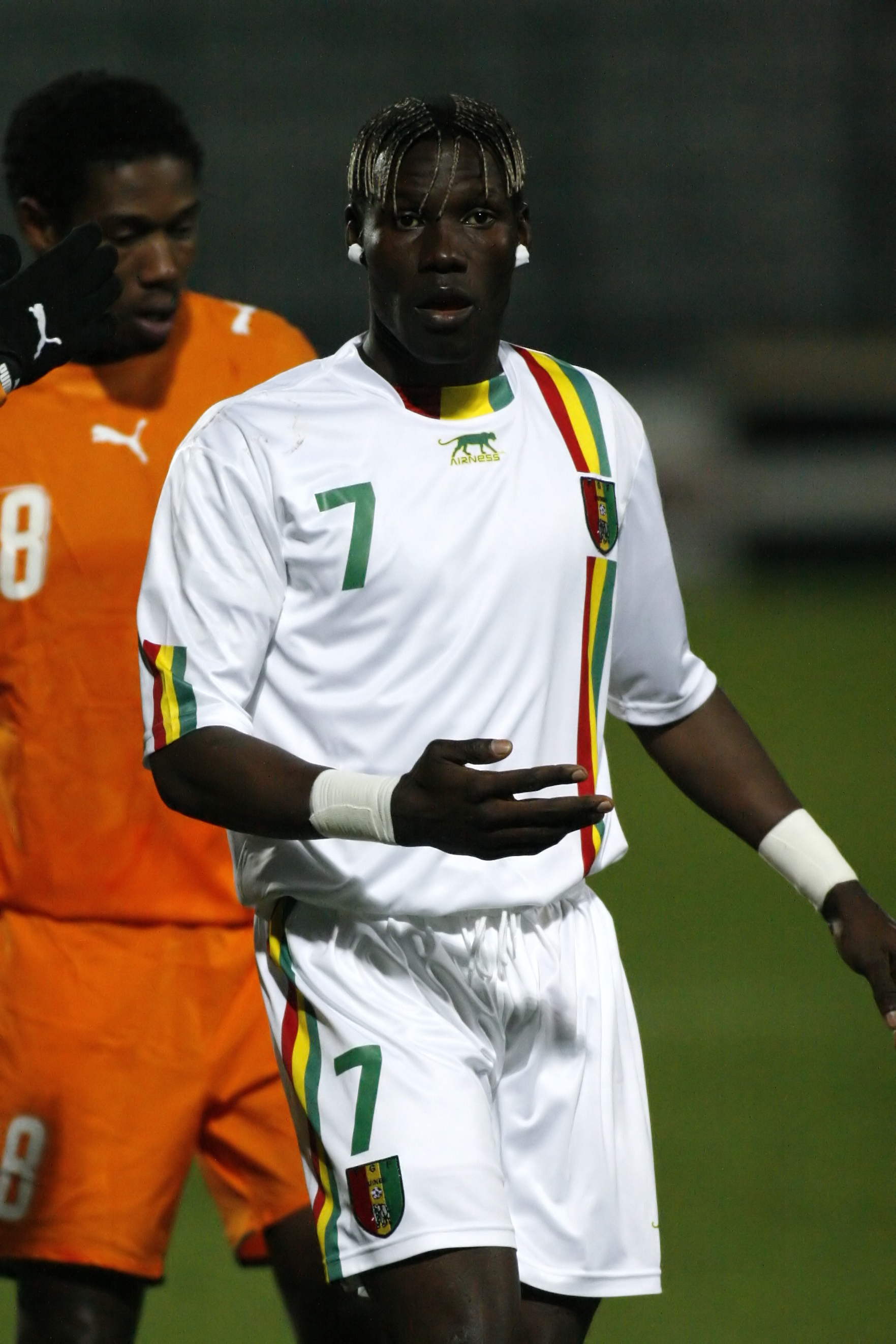 Guinean player Fodé Mansaré during match Guinea vs. Côte d'Ivoire at Stade Robert Diochon, Rouen, France.